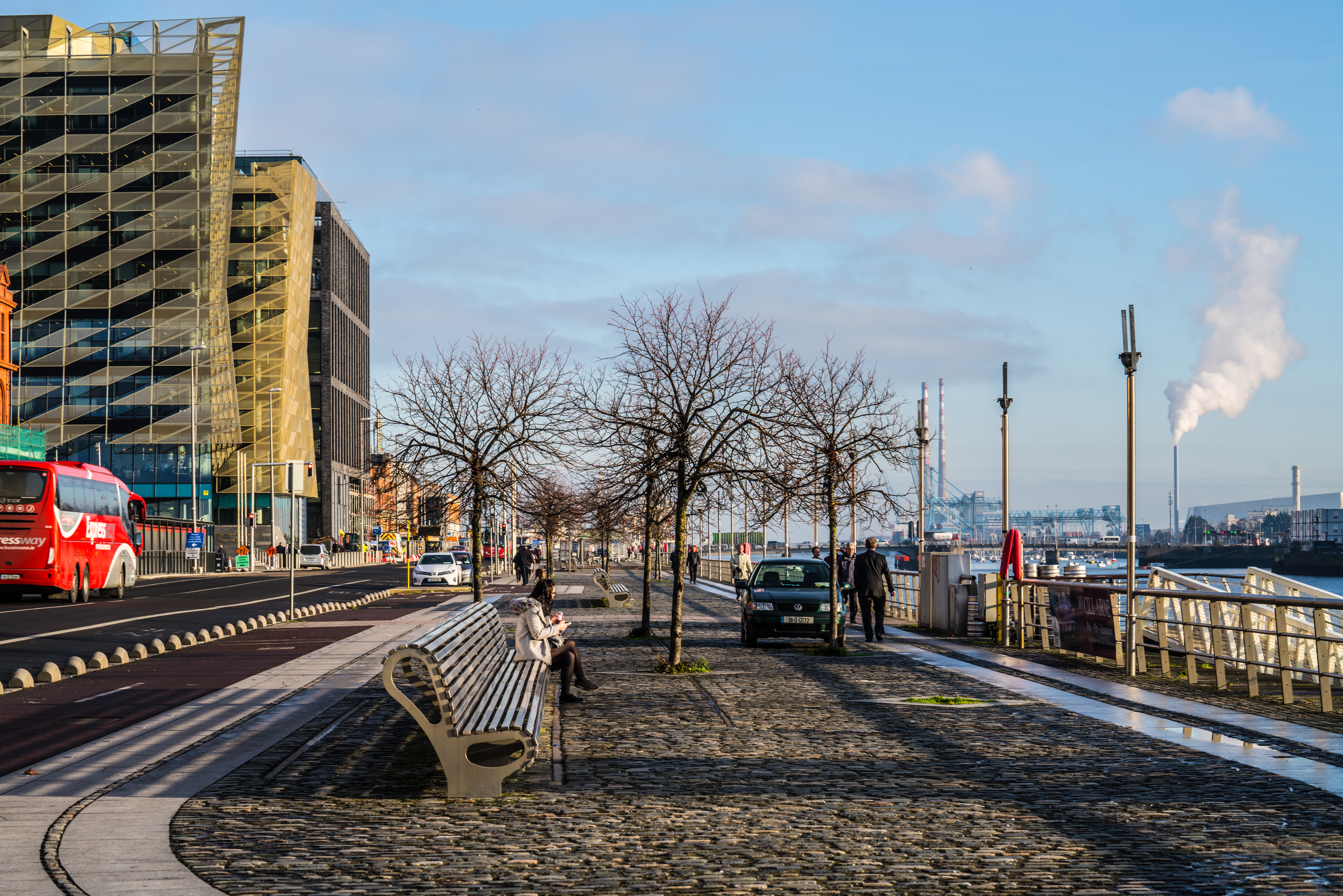 The Central Bank of Ireland is Ireland's central bank, and as such part of the European System of Central Banks (ESCB). It is also the country's financial services regulator for most categories of financial firms. It was the issuer of Irish pound banknotes and coinage until the introduction of the euro currency, and now provides this service for the European Central Bank. The Central Bank was founded on 1 February 1943 and since 1 January 1972 has been the banker of the Government of Ireland in accordance with the Central Bank Act 1971,which can be seen in legislative terms as completing the long transition from a currency board to a fully functional central bank. Its head office was located on Dame Street, Dublin from 1979 until 2017. Its offices at Iveagh Court and College Green also closed down at the same time. Since March 2017, its headquarters are located on North Wall Quay, where the public may exchange non-current Irish coinage and currency (both pre- and post-decimalization) for euros, as well as High Value Euro Currency Bank Notes and Mutilated Currency. It also operates from premises at nearby Spencer Dock. The Currency Centre at Sandyford is the currency manufacture, warehouse and distribution site of the bank.